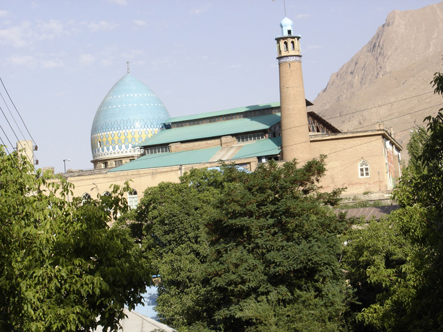 Damavand city Congregation mosque. 15th century.